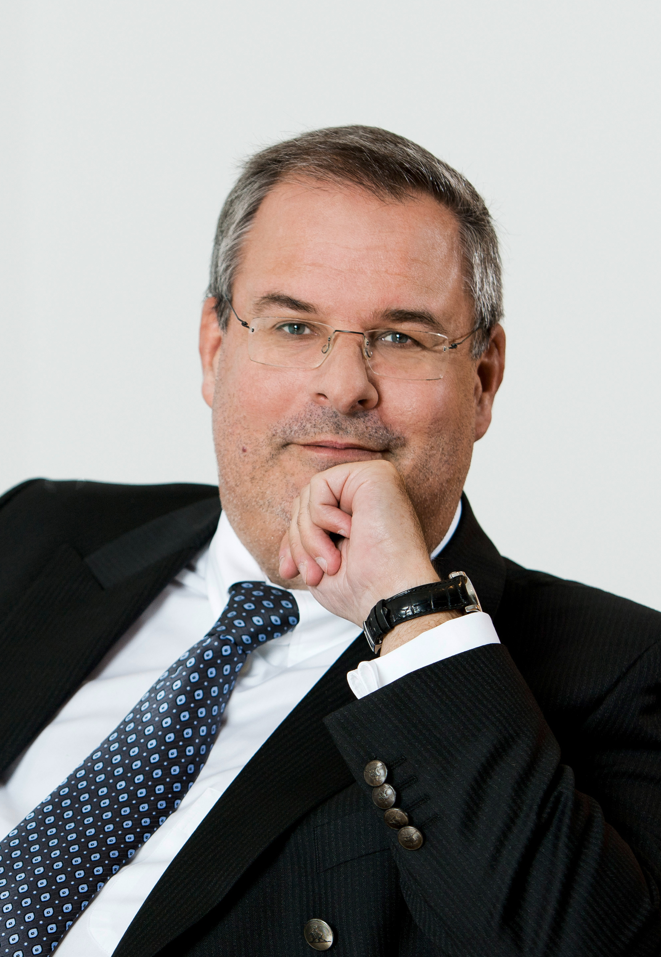 Stefan Schreiter, Managing Partner and Chief Executive Officer (CEO) of DSD – Duales System Holding GmbH & Co. KG, 2011